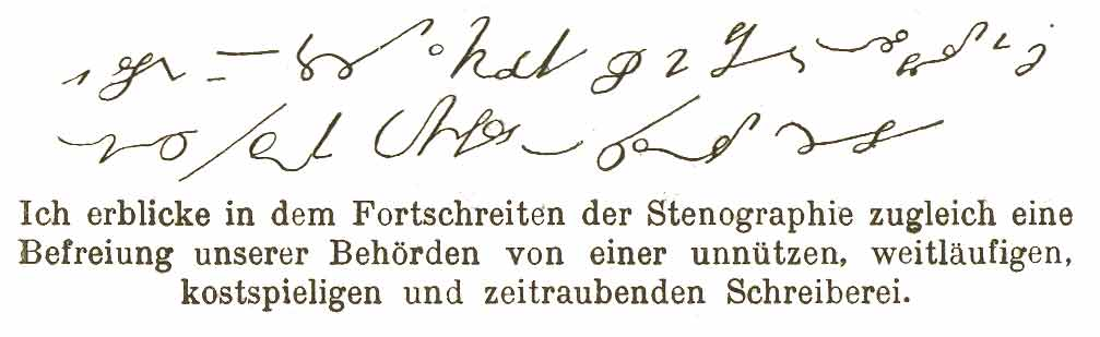 Example of the shorthand system invented by Heinrich Roller